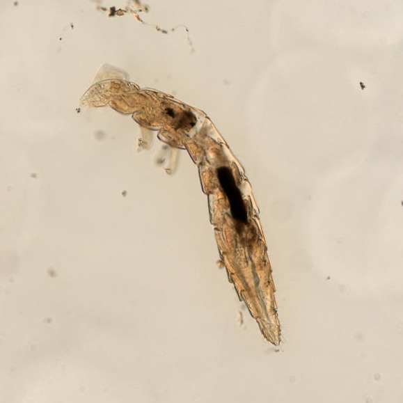 PRESERVED_SPECIMEN; ; ; microslide; ; IZ number 98960; lot count 1; Microslide 01, balsam, whole mount; 1943-07-12T00:00:00Z